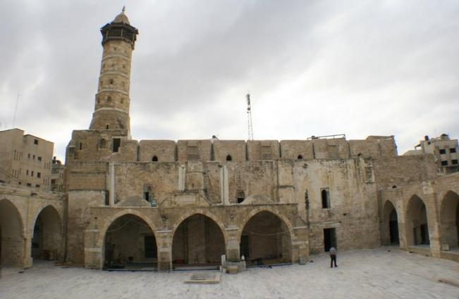 The Great Mosque of Gaza's courtyard and minaret.